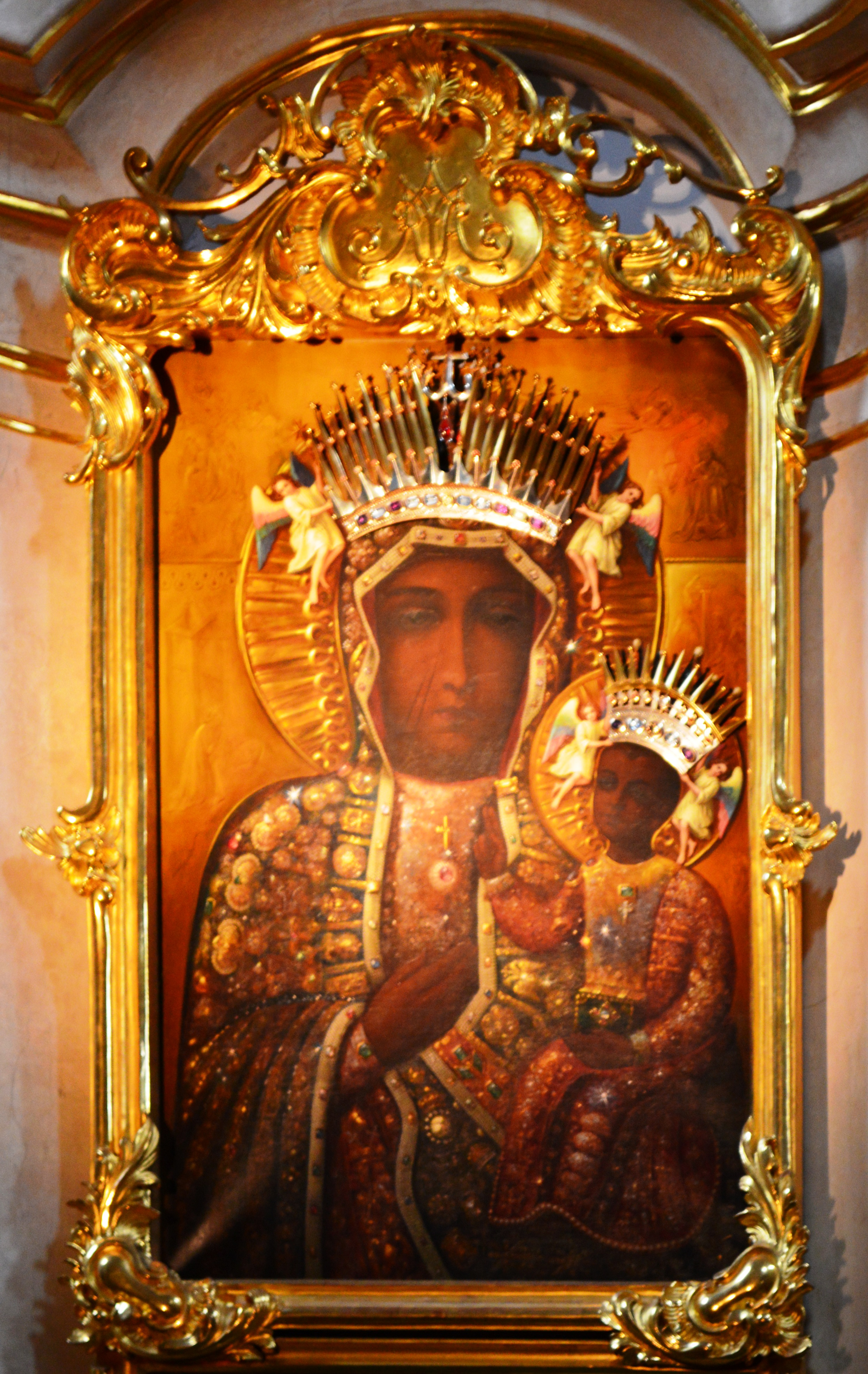 Lublin is the ninth largest city in Poland and the second largest city of Lesser Poland. It is the capital and the center of Lublin Voivodeship (province) and is the largest Polish city east of the Vistula River. Lublin, until the partitions at the end of the eighteenth century, was a royal city of the Crown Kingdom of Poland. Its delegates and nobles had the right to participate in the Royal Election. In 1578 Lublin was chosen as the seat of the Crown Tribunal, the highest Appeal Court in the Polish-Lithuanian Commonwealth and for centuries the city has been flourishing as a centre of culture and higher learning, together with Kraków, Warszawa and Lwów (Lviv). Although Lublin was not spared from severe destruction during World War II, its picturesque and historical Old Town has been preserved. The district is one of Poland's official national Historic Monuments (Pomnik historii), as designated May 16, 2007, and tracked by the National Heritage Board of Poland.The Scotch Mist Gallery contains many photographs of historic buildings, monuments and memorials of Poland.